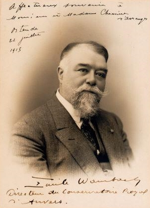 Belgian composer and conductor Emile Wambach (1854-1924)